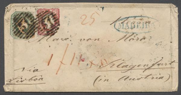 1860, Cover with oval "MADEIRA" in blue with 25 R. rose and 50 R. green tied by barred "51" (Porto), one stamp corner missing and cover with border crease and light toned, ms. crayon "25" alongside, transit Lisboa - Badajoz to Austria.